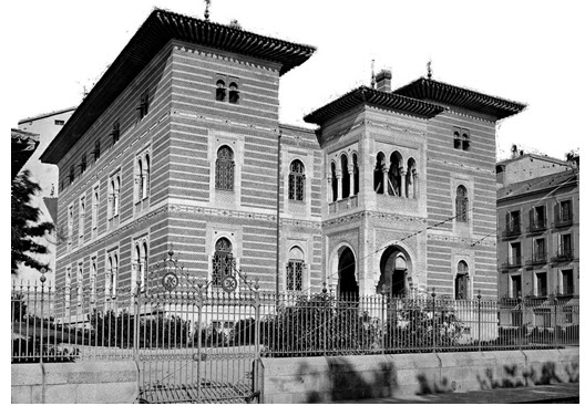 Palacio de Xifré, exterior